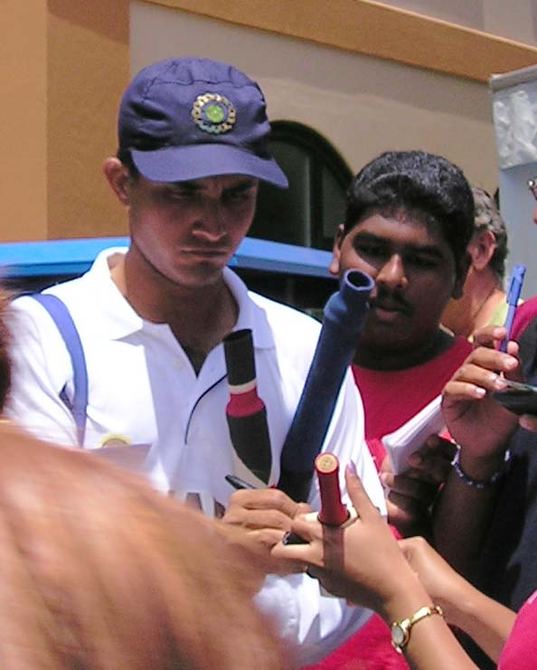 Indian Cricketer